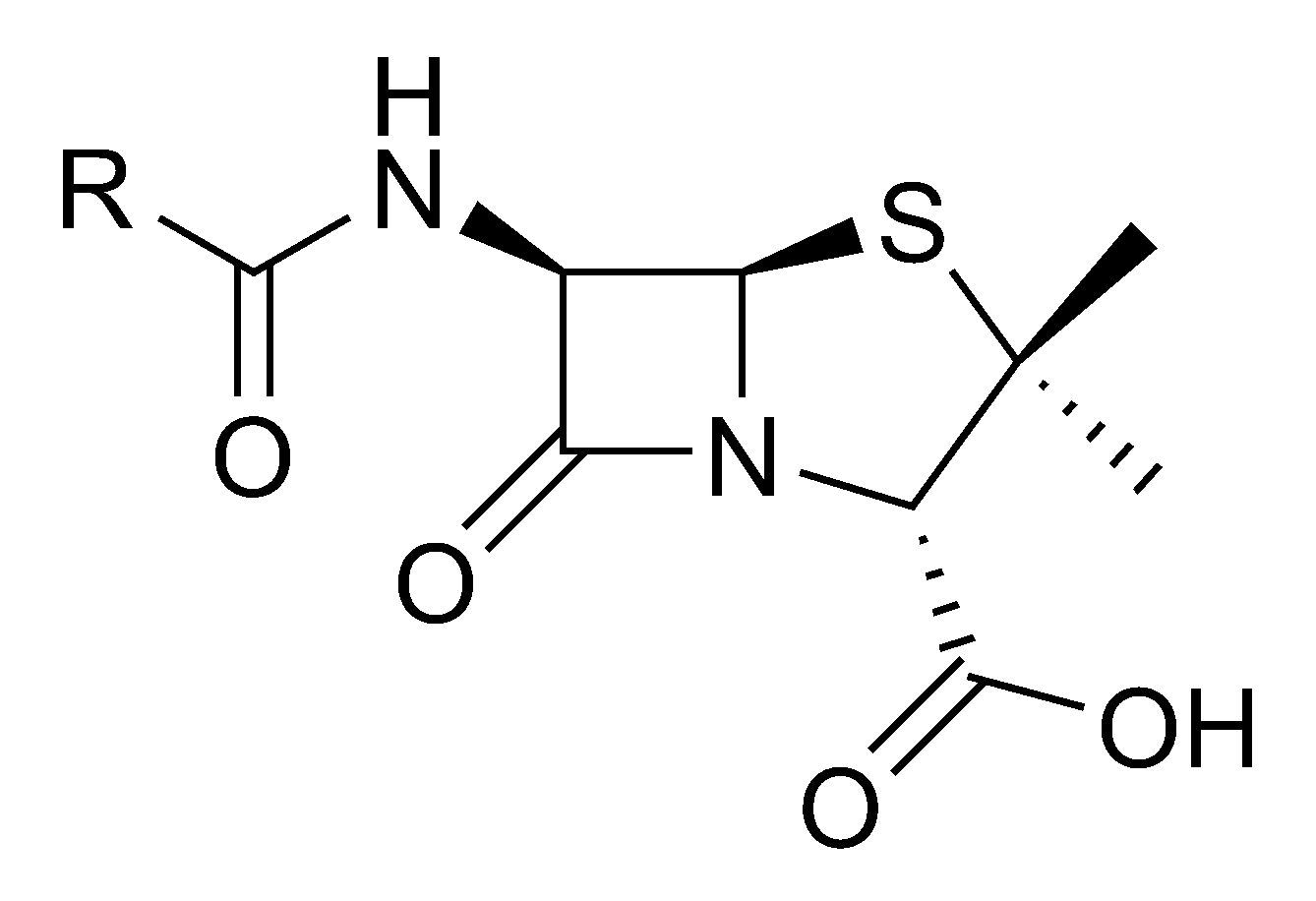 chemical structure of the Penicillin core